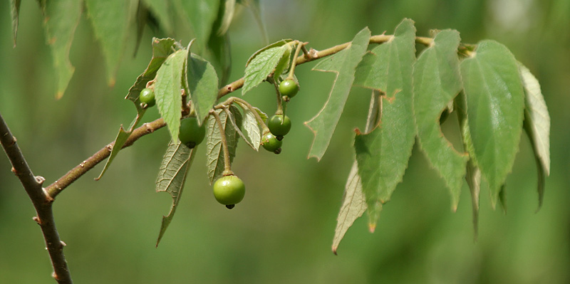 Singapur cherry Muntingia calabura in Hyderabad , India.